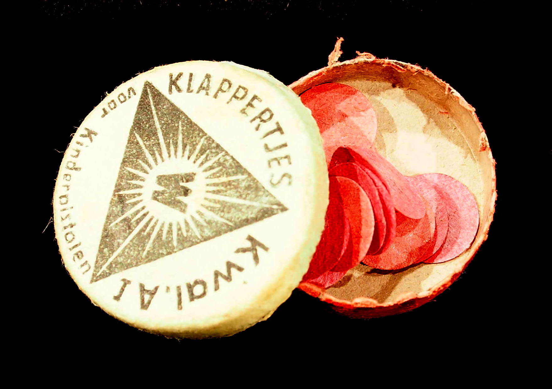 Very old packaging of a product that is not produced and/or not sold any more.